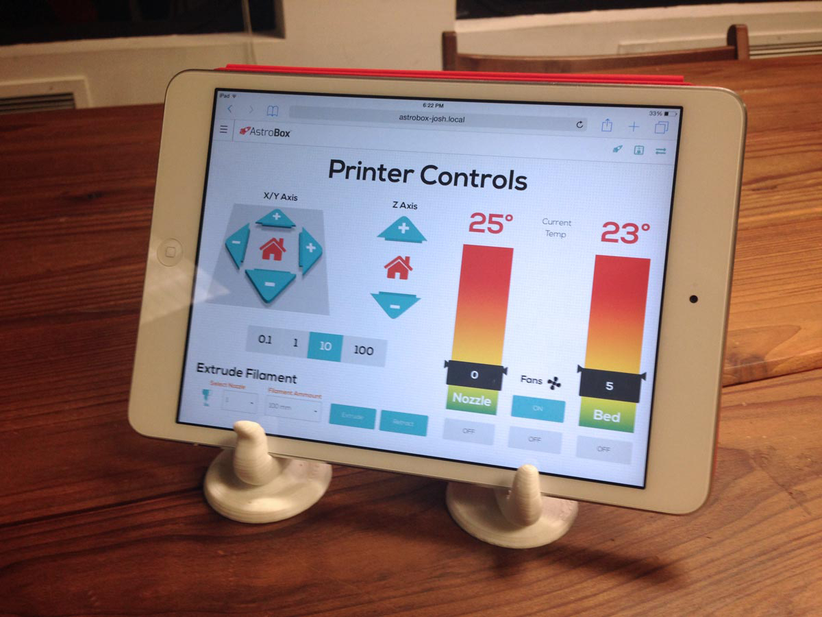 AstroPrint interface on a tablet while remotely managing a 3D Printer